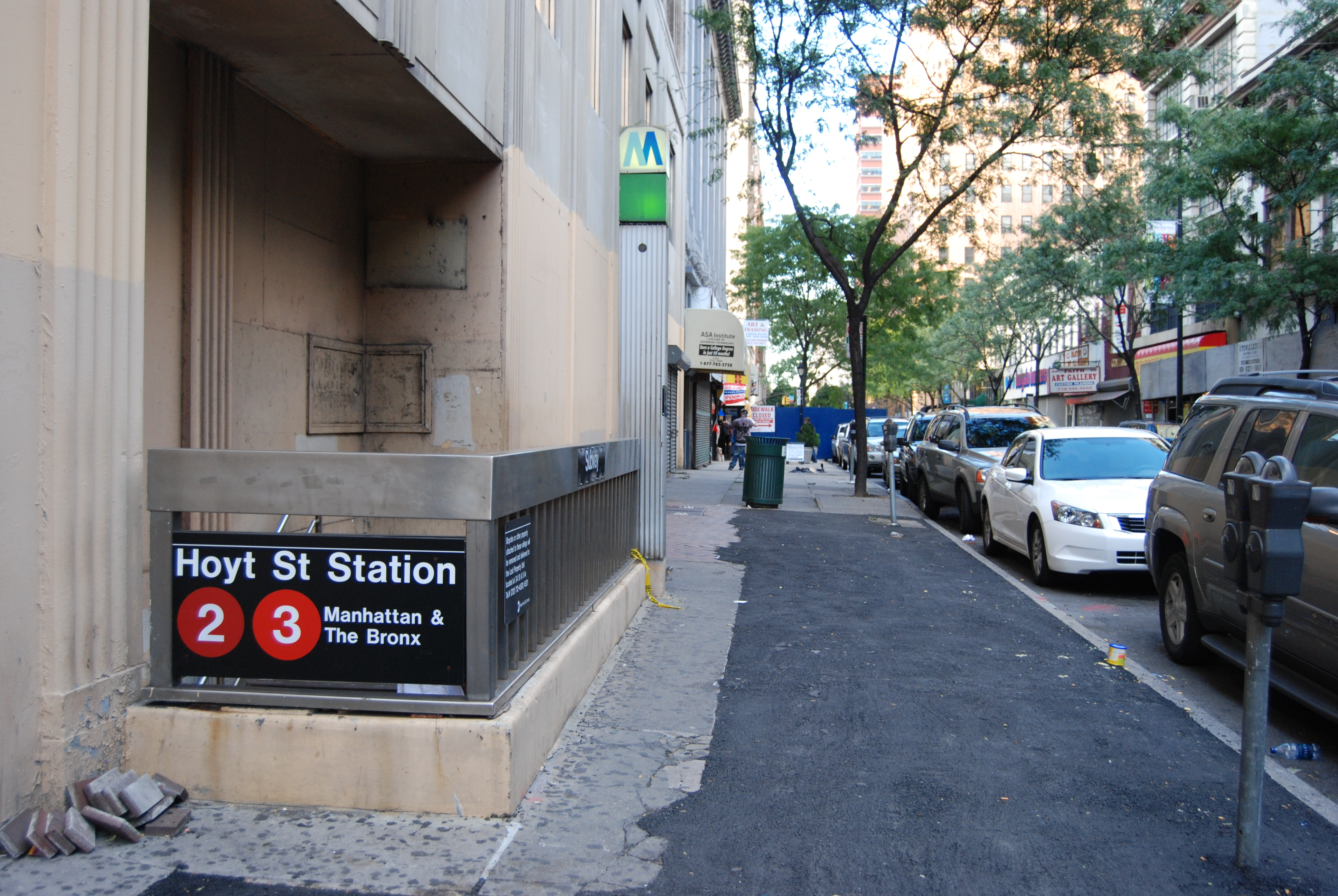 Hoyt Street-Fulton Mall 2/3 Station in New York City